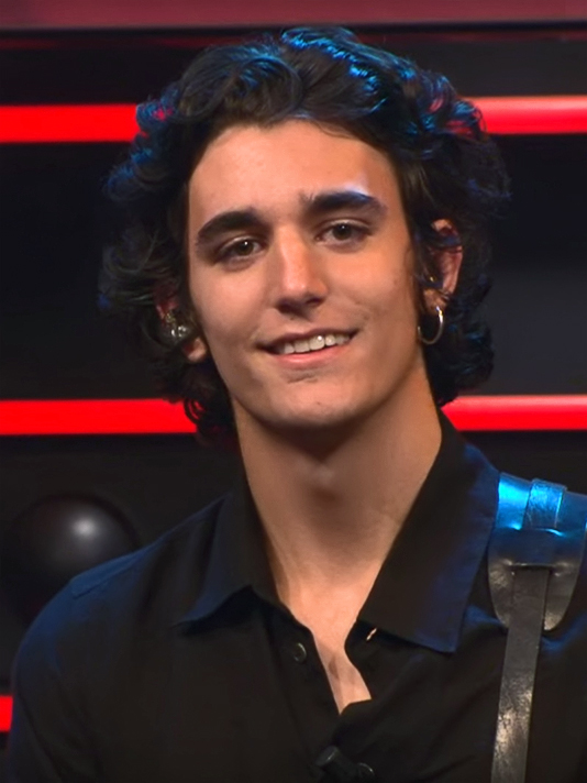 Tamino (2017)